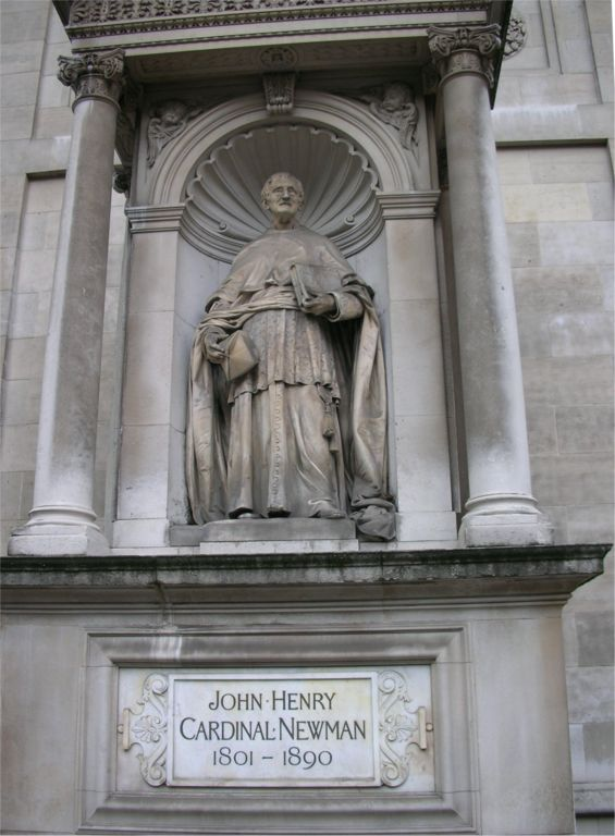 Statue of John Henry Newman (Cardinal Newman) at the Church of the Immaculate Heart of Mary, Brompton Road, London, England. Popularly called Brompton Oratory. Photographed by me 29 September 2006. Oosoom